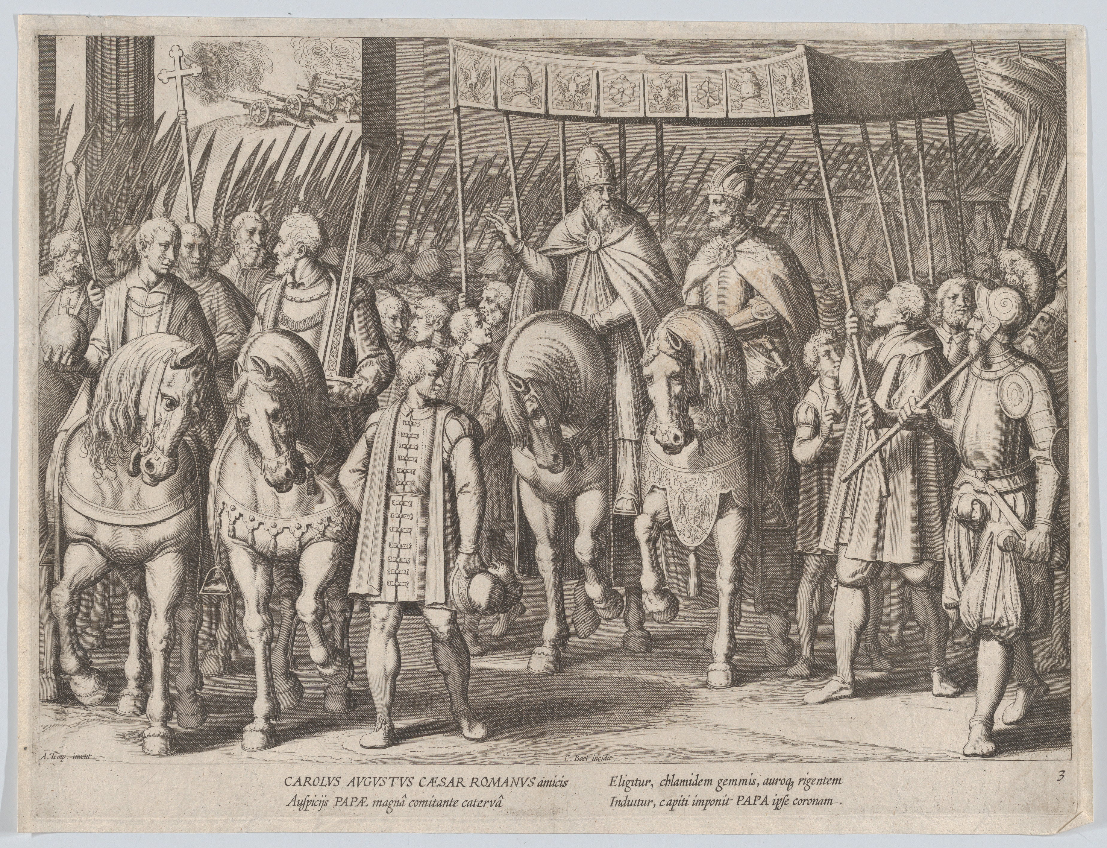 Desfile con motivo de la coronación de Carlos V por el papa Clemente VII. Grabado de Cornelis Boel sobre dibujo de Antonio Tempesta para "La vie de l'Empereur Charles V, en tres-belles tailles-douces, gravées sur les dessins du celébre A. Tempeste, par deux des plus habiles Maitres J. de Gein & C. Boel", Leiden, Pieter van der Aa, 1614. The Metropolitan Museum